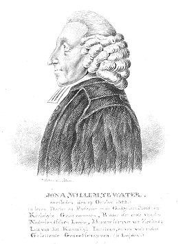 J. W. te Water